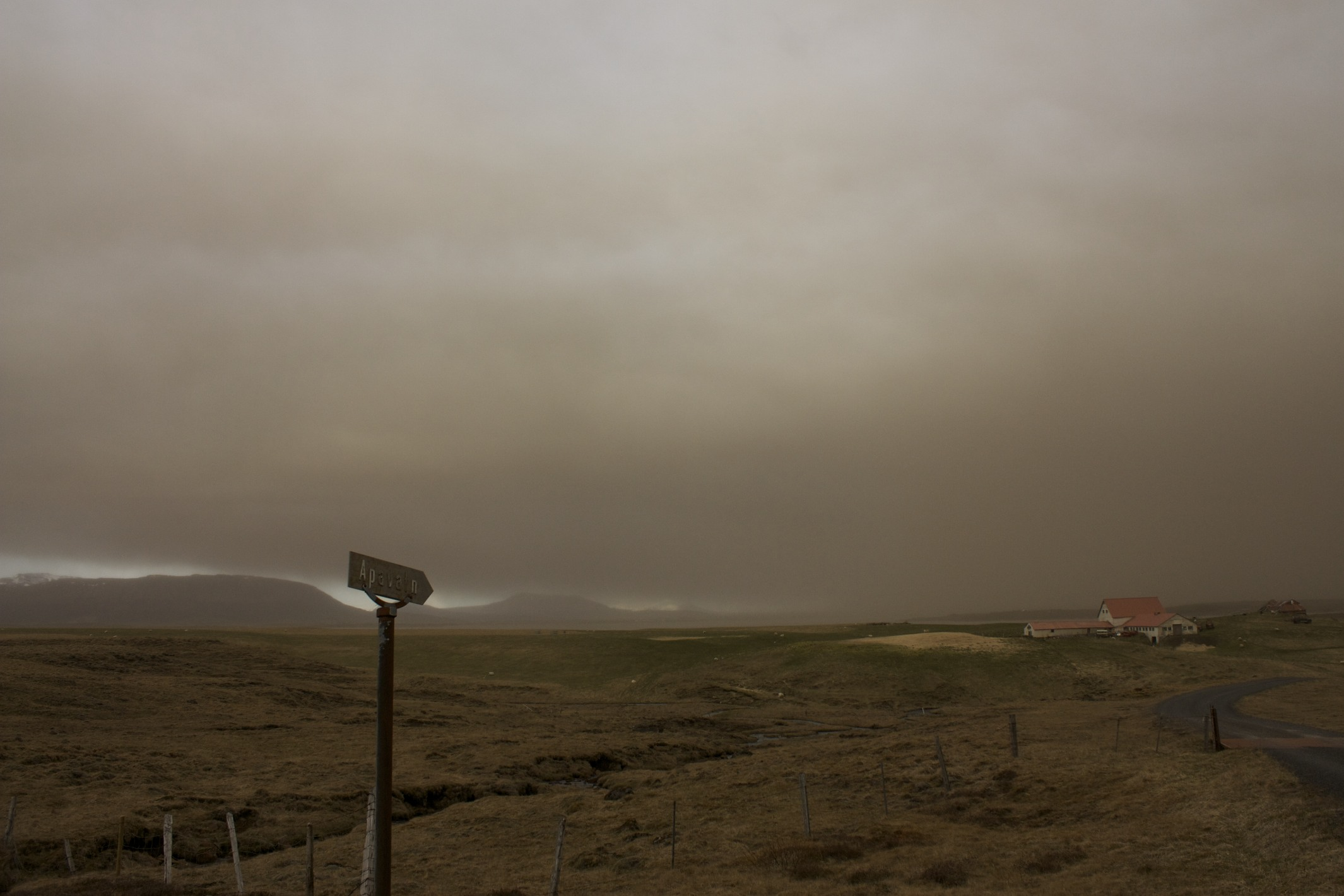 We drove an hour out of Reykjavík to see what the eruption of the Grimsvötn volcano looked like. In the end we couldn't catch even a glimpse of the volcano because of the huge ash cloud covering the south of Iceland. Everything was brown — including us by the end of it, blinking out dirt with our skin dry and gritty. We took a video of the ash cloud too.